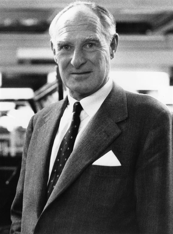 Land Rover marks 65 years of technology and innovation with a celebratory event at Packington Estate near Solihull.